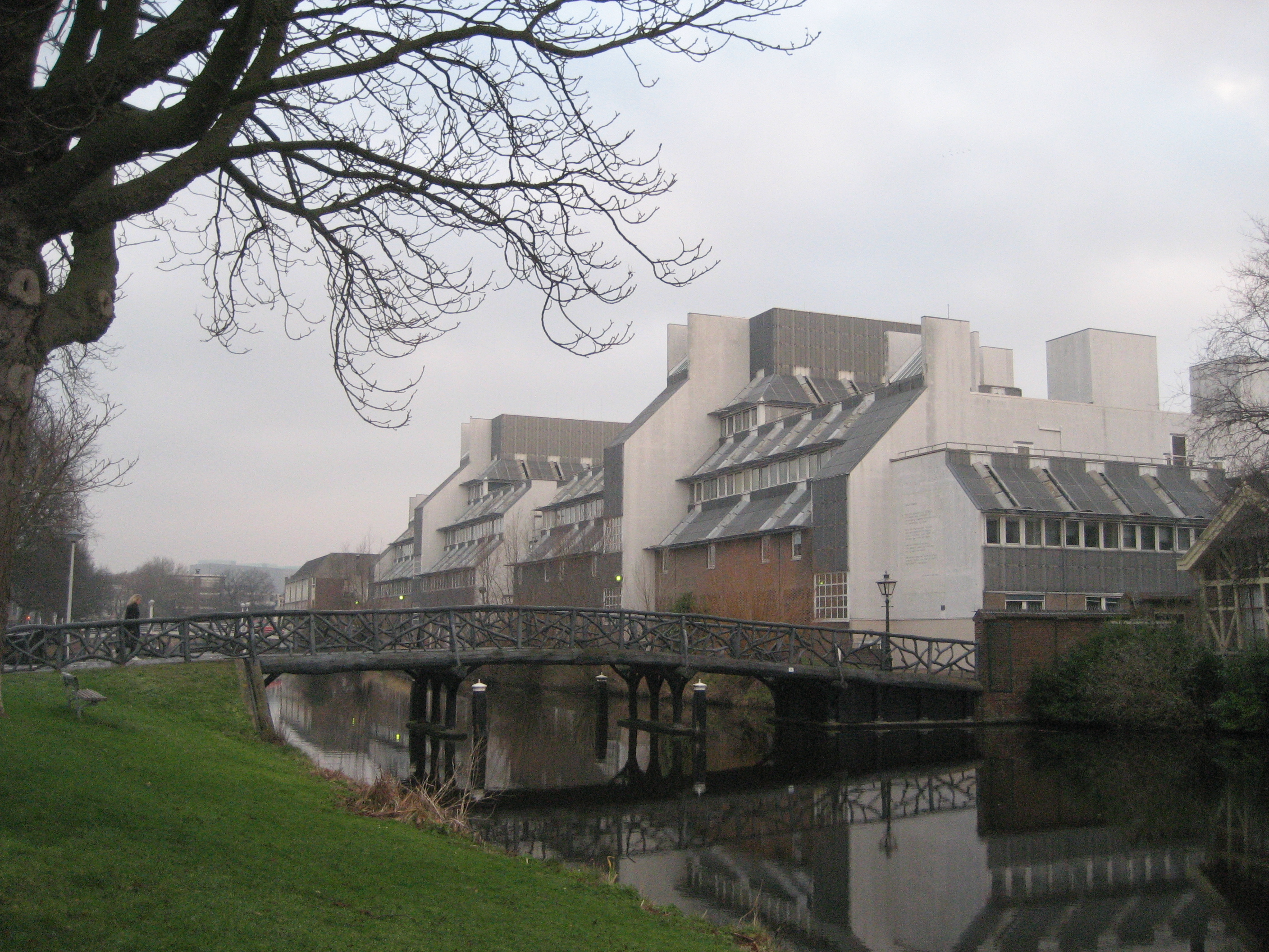 Lipsius Building Leiden ("Witte Singel Doelen (WSD)complex"), Cleveringaplaats 1, Leiden (The Netherlands). Built in 1982. Architects: H.P. Ahrens, E. Kleijer & A.H. Baller. Home to the Faculty of Humanities, Leiden University. View from the Witte Singel.